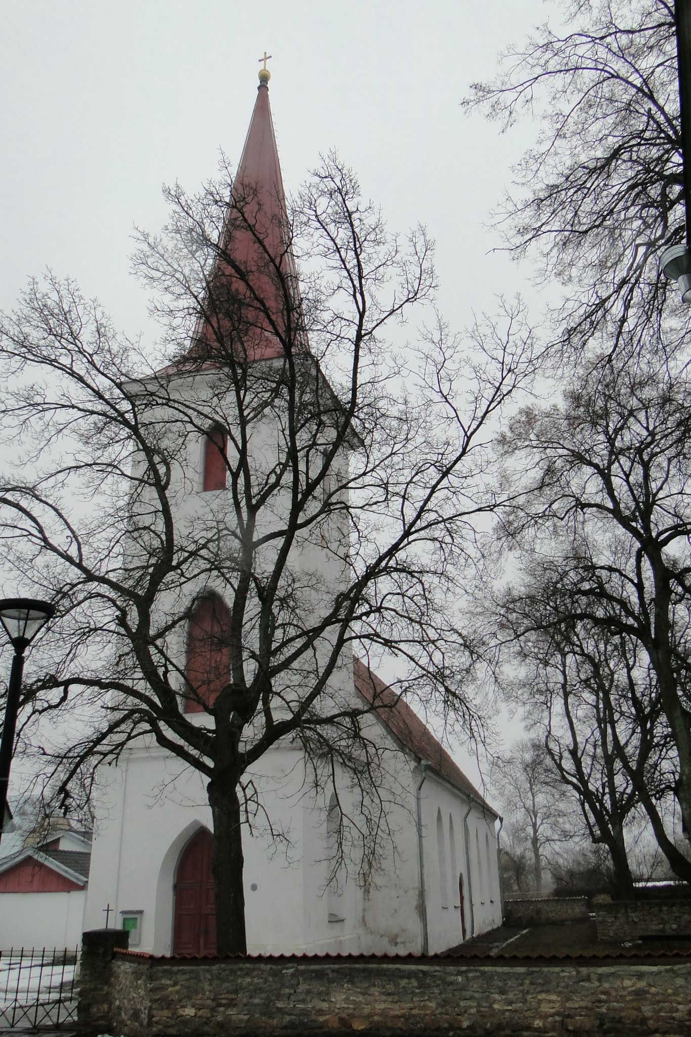 Jaani church